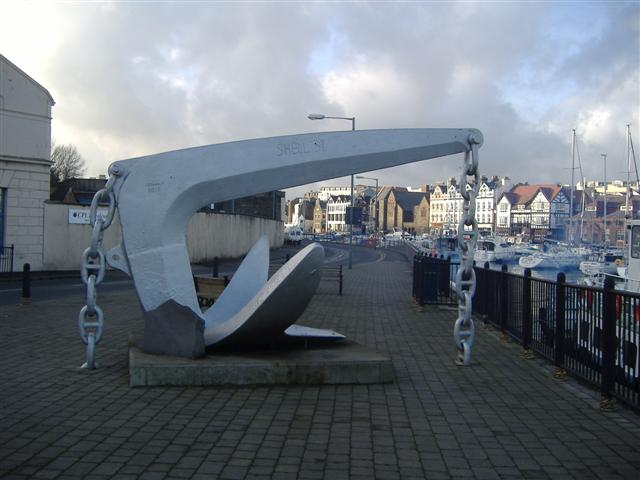 Bruce anchor South quay Douglas. This six and a half ton monster was donated to the Manx Department of Transport in 2000 in recognition of Manx maritime heritage. Looking westward.